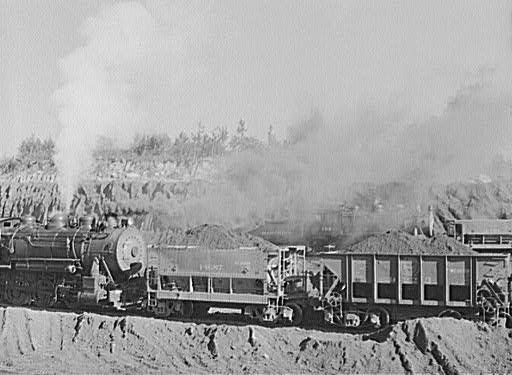 Carloads of iron ore at Mahoning pit. Hibbing, Minnesota.